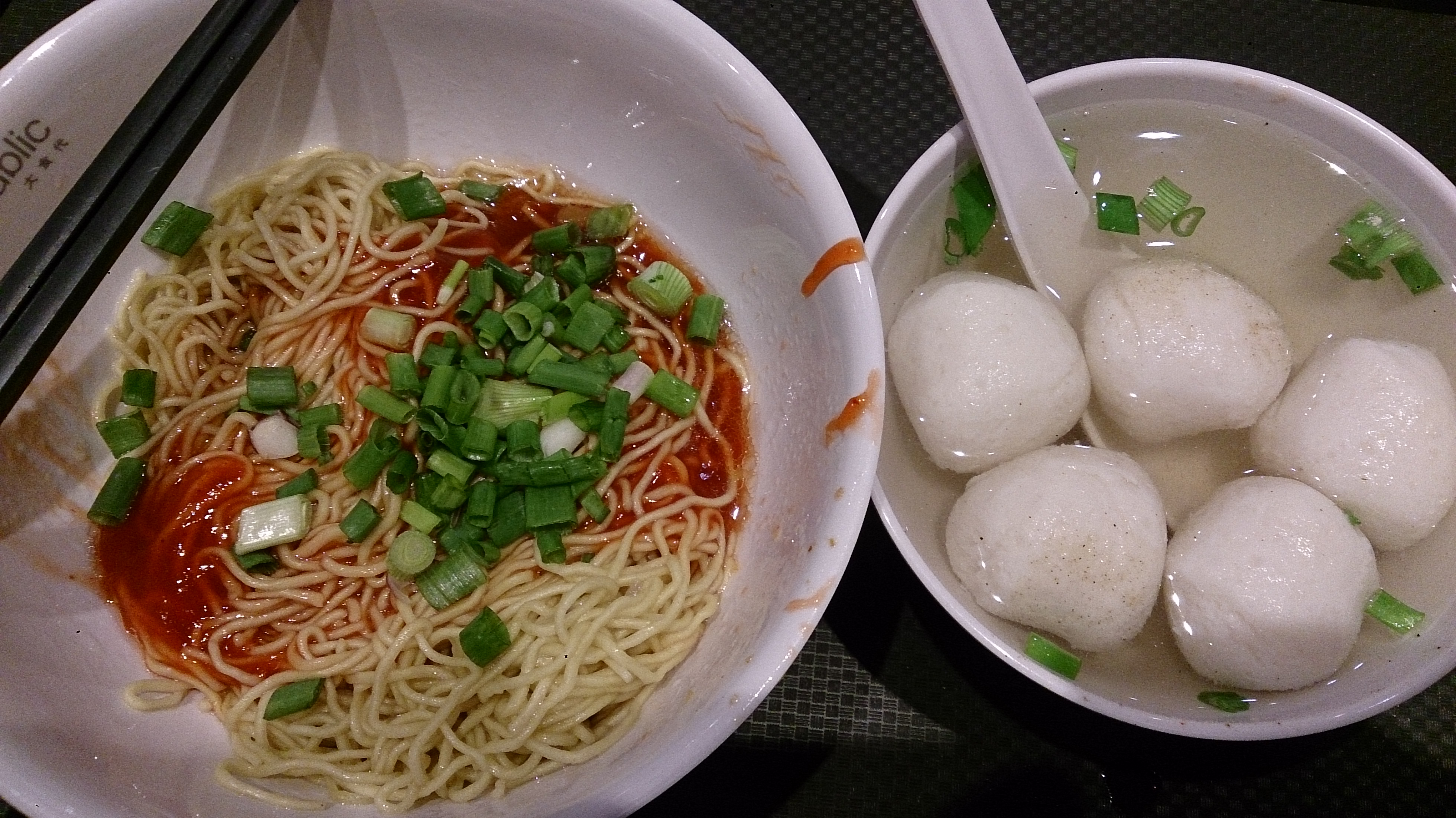 Dry fishball noodles with tomato ketchup sold at a food court in Singapore